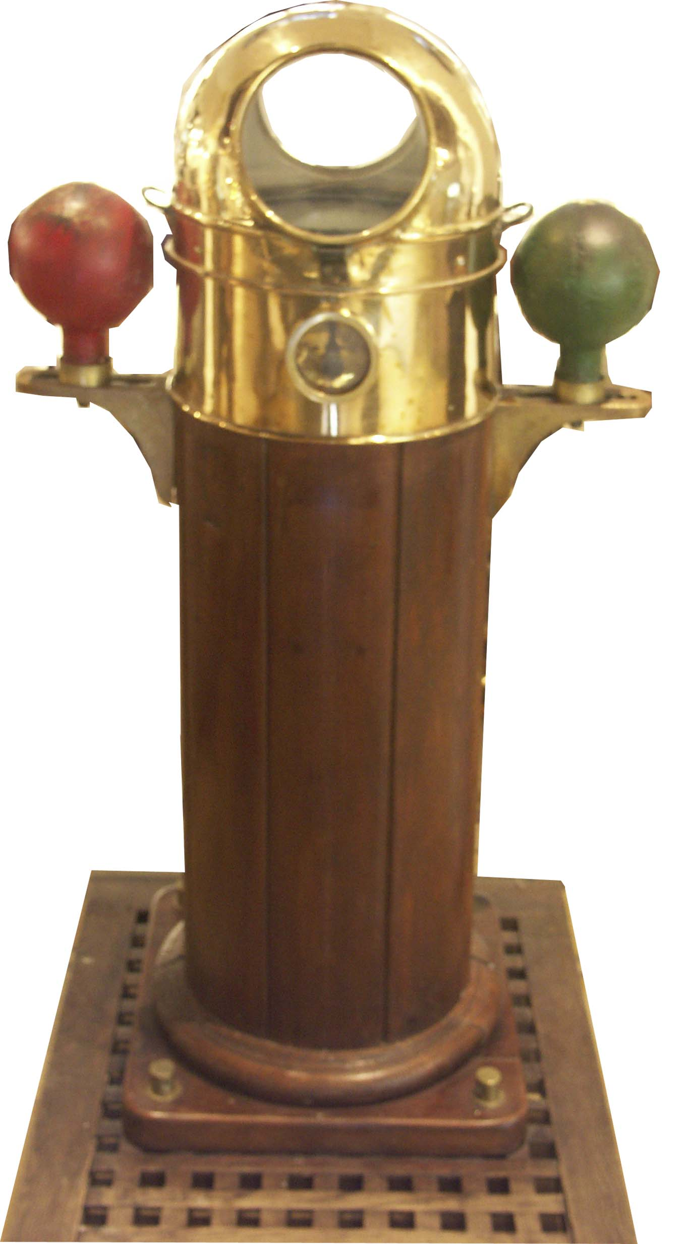 ancient ship's compass with magnetic deviation compensating devices